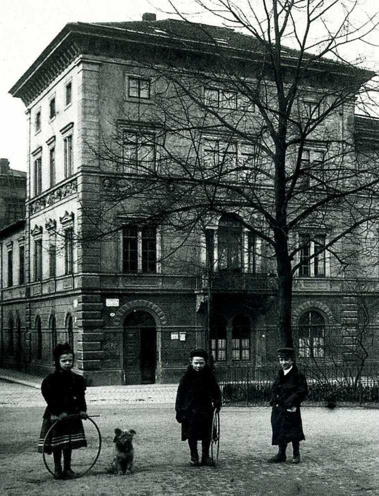 Dresden, Bürgerwiese 14